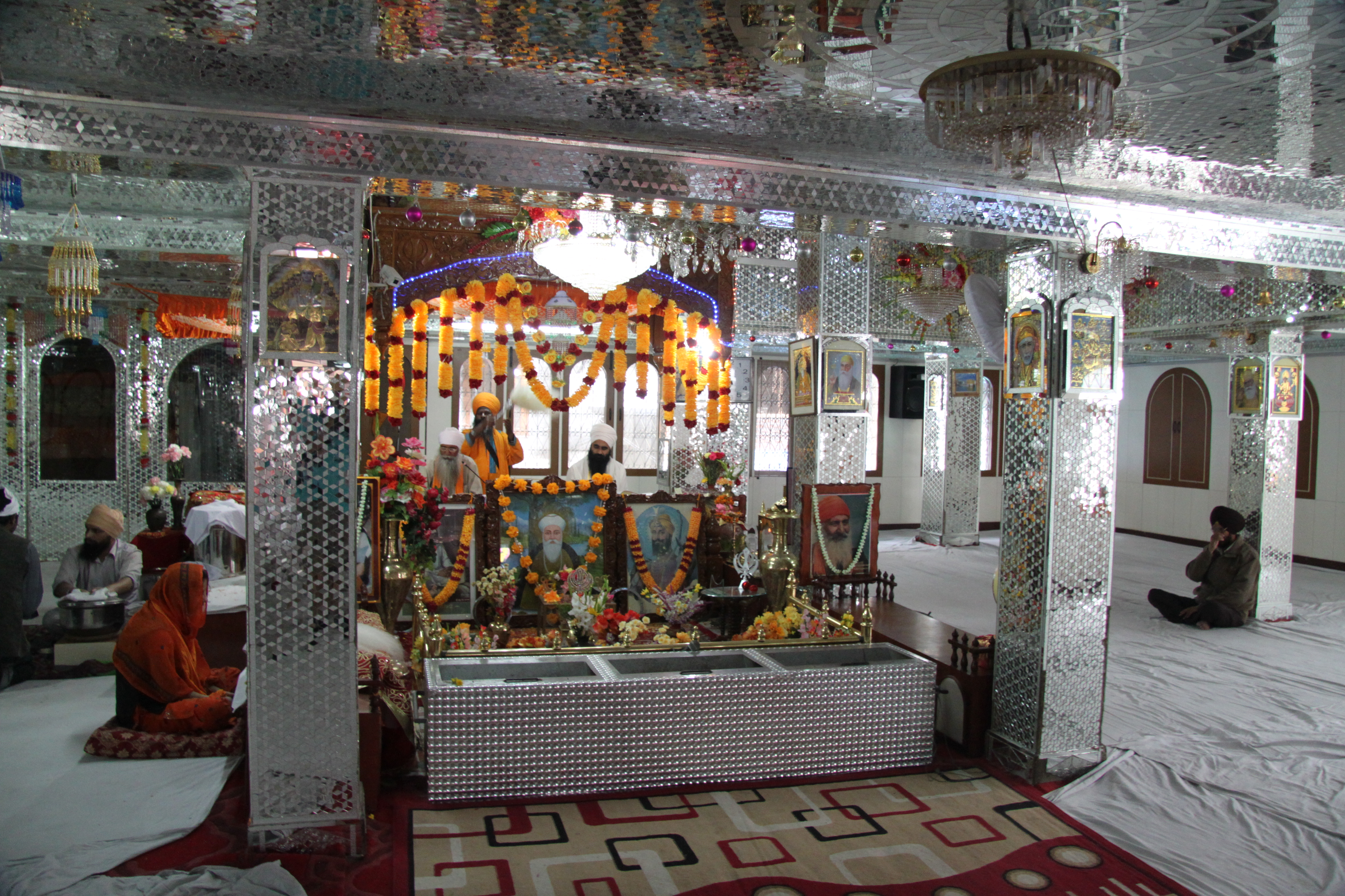 Inside the Manikaran Gurdwara